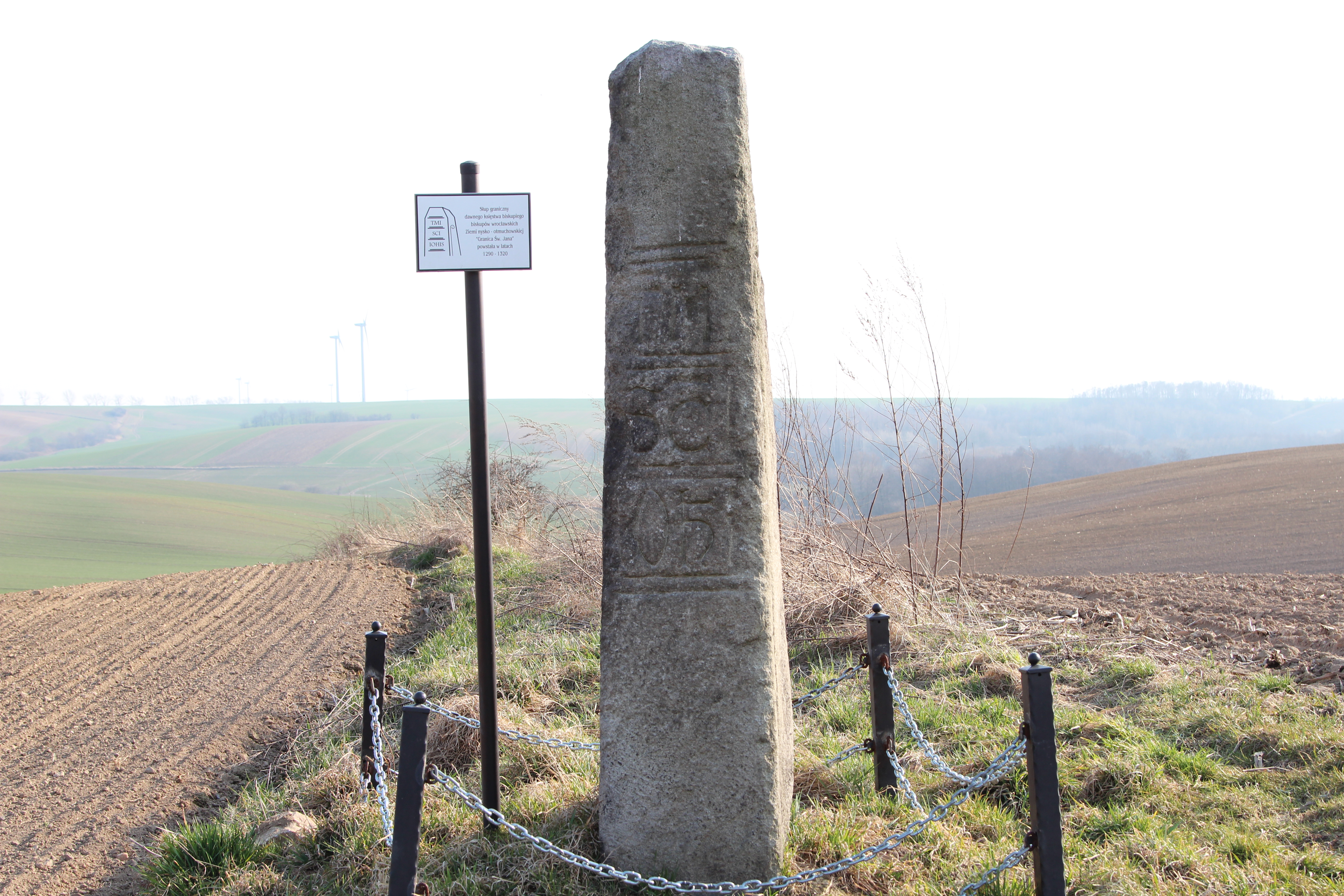 Relict border stone of Duchy of Nysa in Chociebórz